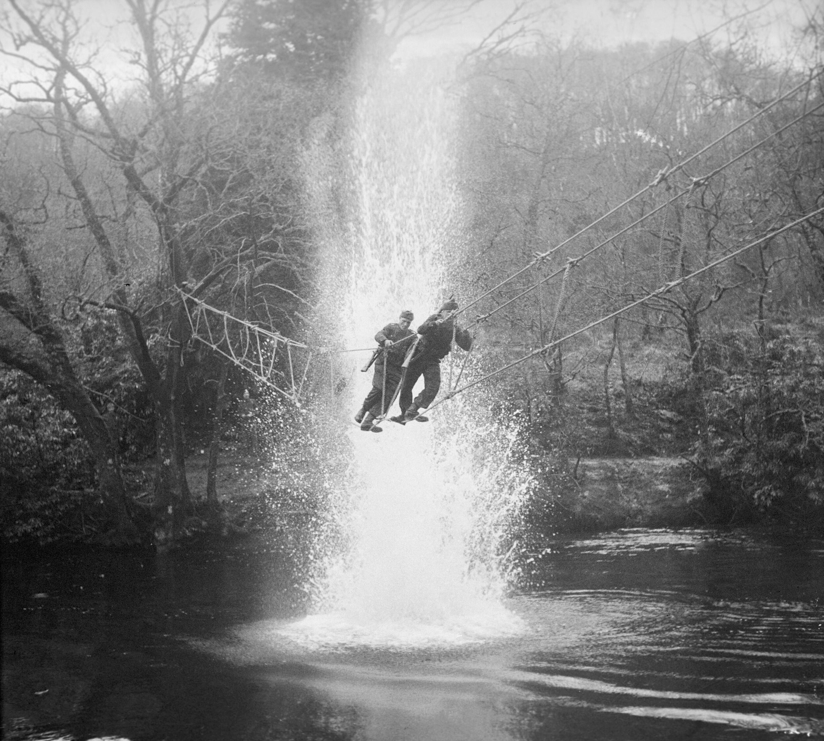 Commandos cross a river on a 'toggle bridge' under simulated artillery fire at the Commando training depot at Achnacarry in Scotland, January 1943. Commandos cross a river on a 'toggle bridge' under simulated artillery fire, at the Commando training depot at Achnacarry, Inverness-shire, Scotland, January 1943.